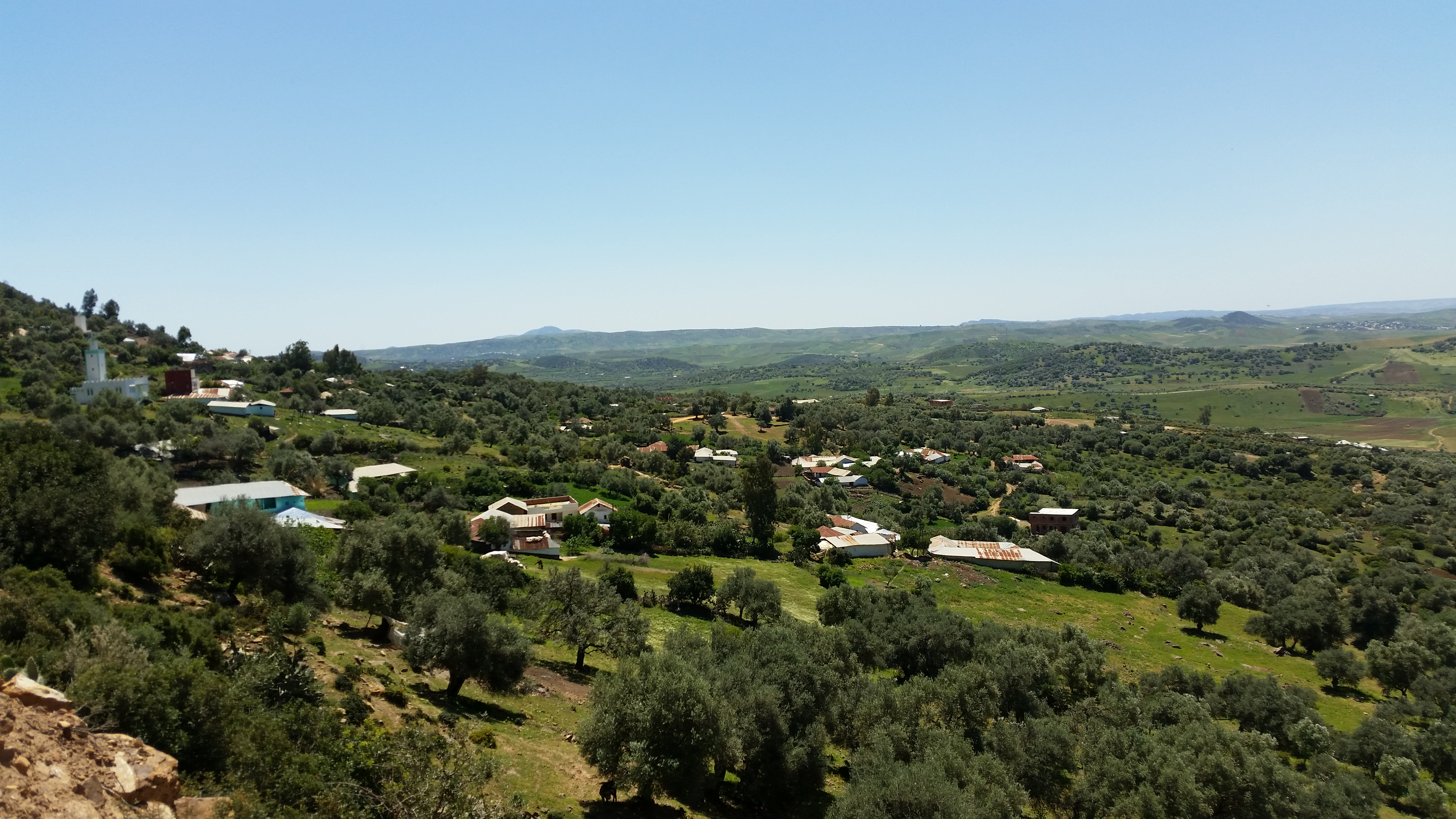 Alronssare village in al Serife tribe in nord of Morocco close to ksar el kebir city